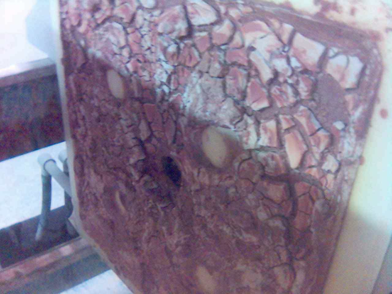 Částečně uschlý kal na plachetce kalolisu / Almost dry sludge on filter cloth of filteration press